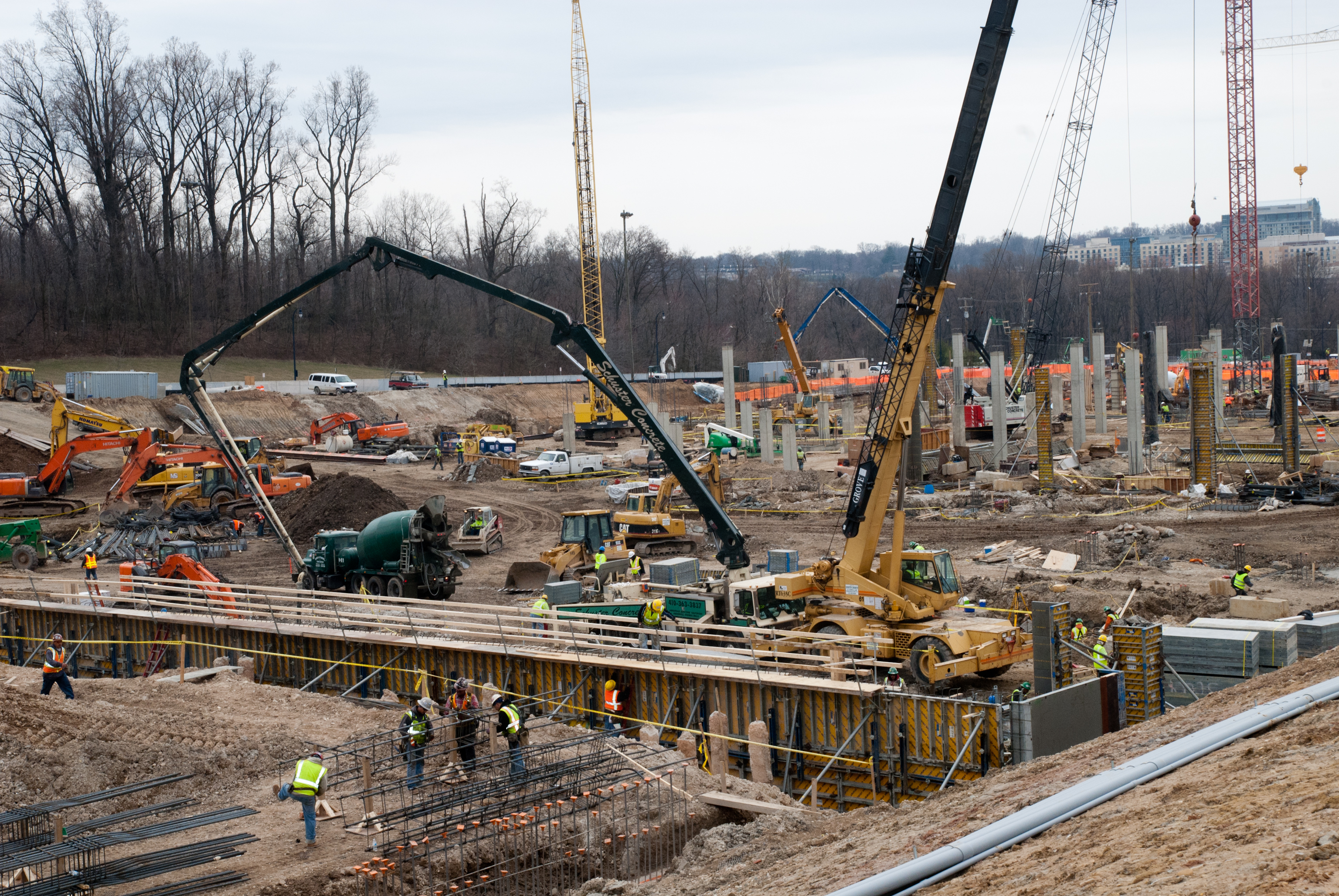 1000 Employee by Richard Lippenholz at National Harbor Celebration of 1000 construction workers being hired for construction of MGM National Harbor.